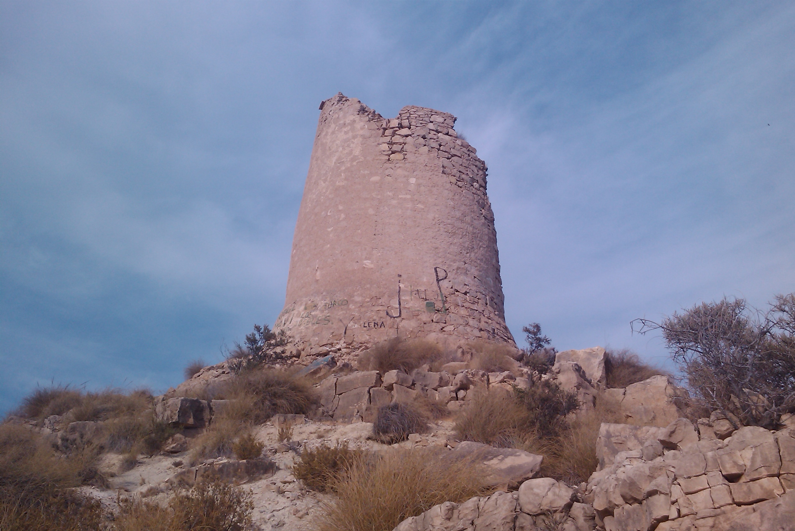 Torre Reixes (Alacant)